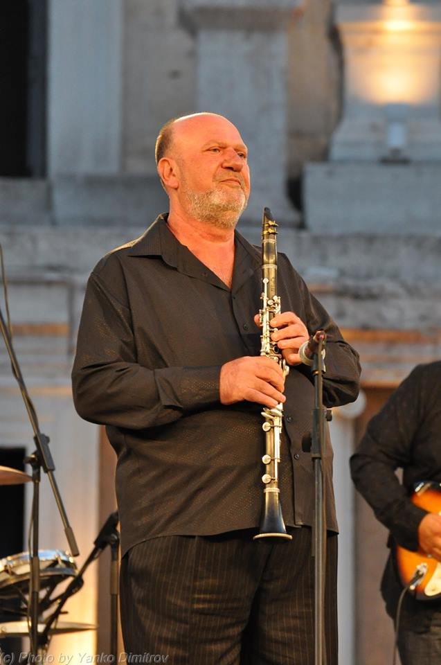 Ibryama